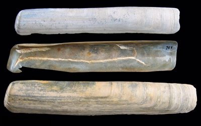 Solen marginatus; Eemian fossil marine bivalved shell from the North Sea.